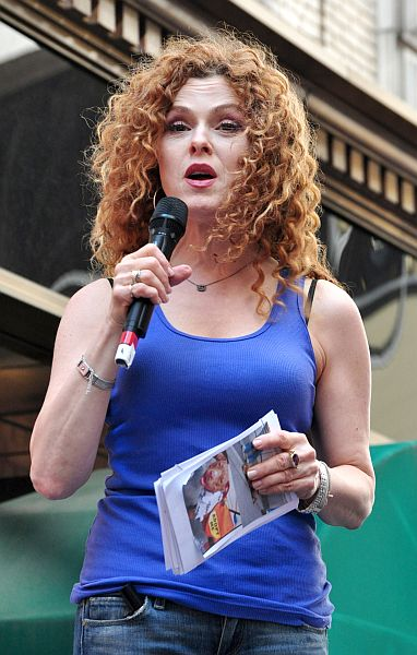 Actress Bernadette Peters attends 13th Annual Broadway Barks Benefit on July 9, 2011 at Shubert Alley in New York City. (Photo © Nick Stepowyj)